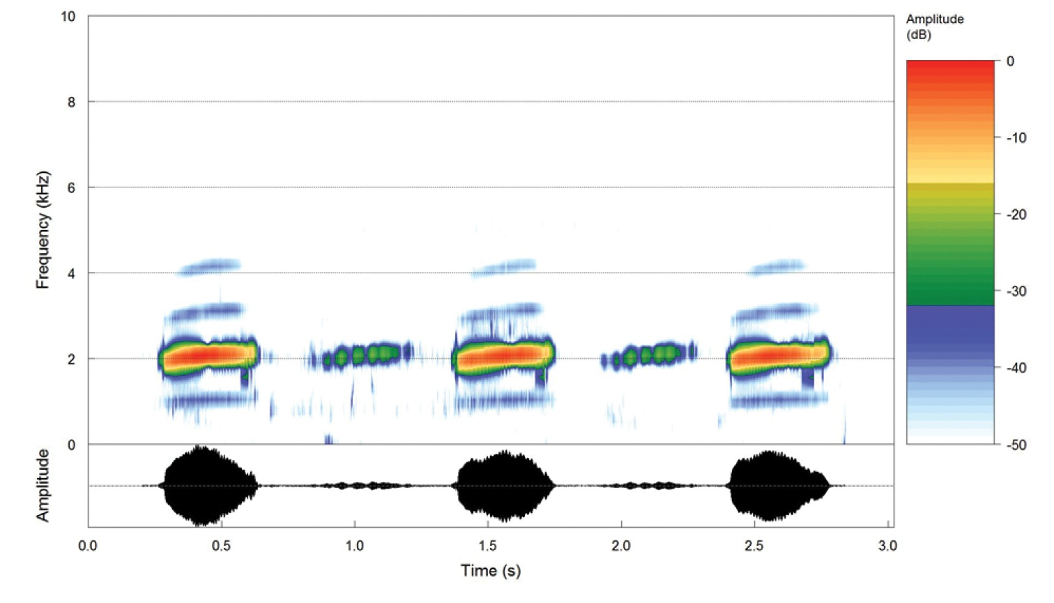 Above, audiospectrogram and oscillogram of three advertisement calls of the holotype of Aplastodiscus lutzorum sp. n. (Chapada dos Veadeiros, 12 December 2011, air temperature 20 °C); the background calls are from another male calling in antiphony.